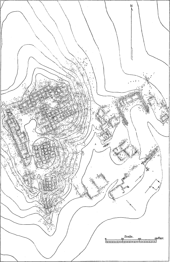 Map (plan) of the ruins of Hawikuh in New Mexico, from "A Study of Pueblo Architecture: Tusayan and Cibola". Eighth Annual Report of the Bureau of Ethnology to the Secretary of the Smithsonian Institution, 1886-1887